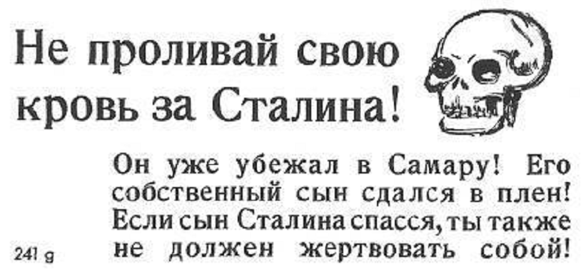 German propaganda poster: "Do not shed your blood for Stalin! He has already fled to Samara! His own son has surrendered! If Stalin's son is saving his own skin, then you are not obliged to sacrifice yourself either!"